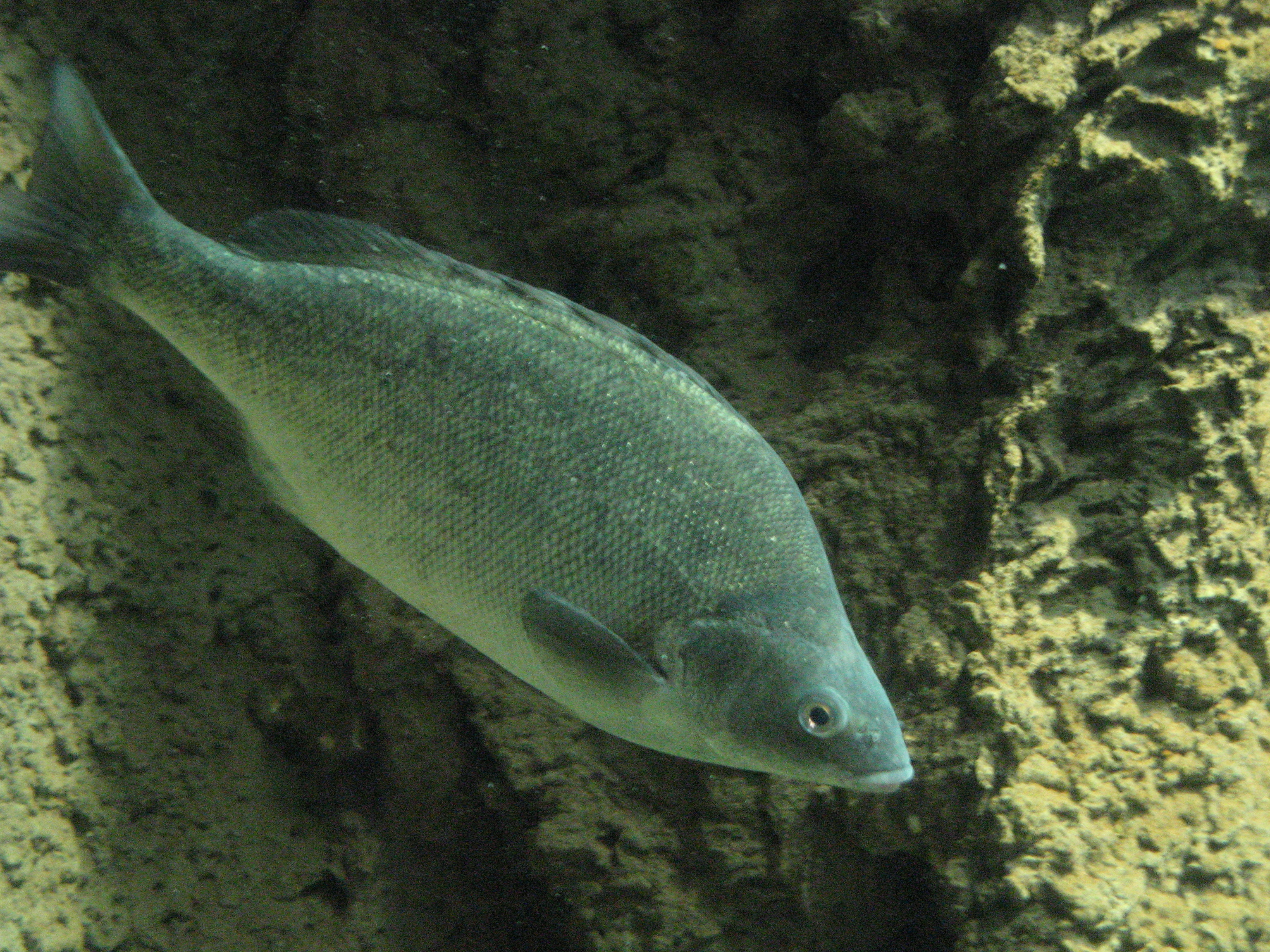 Bidyanus bidyanus at the National Zoo & Aquarium in Canberra, Australia